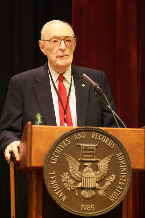 Ambassador Harlan Cleveland, an executive of the Marshall Plan (1952), Assistant Secretary of State for International Affairs (1960s), and U.S. Ambassador to NATO (1965-69). Public Symposium: The Cold War: An Eyewitness Perspective.